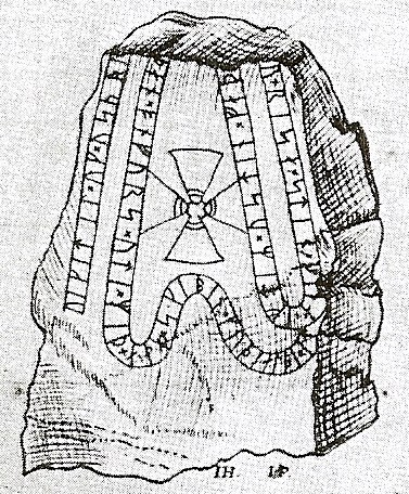 image of a lost runestone, U 349 in Odenslunda, Vallentuna.